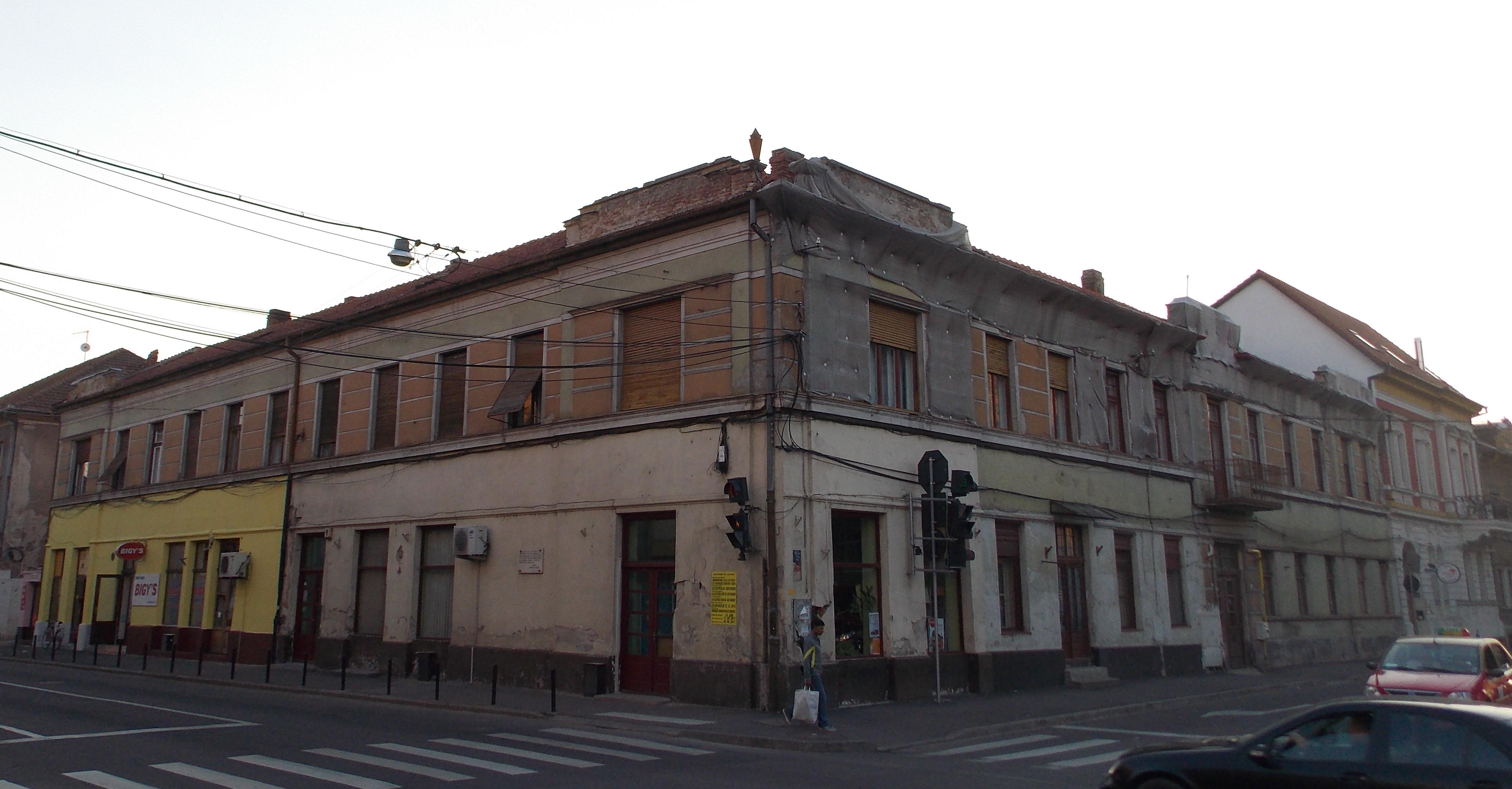 House from the 18th century - Oradea